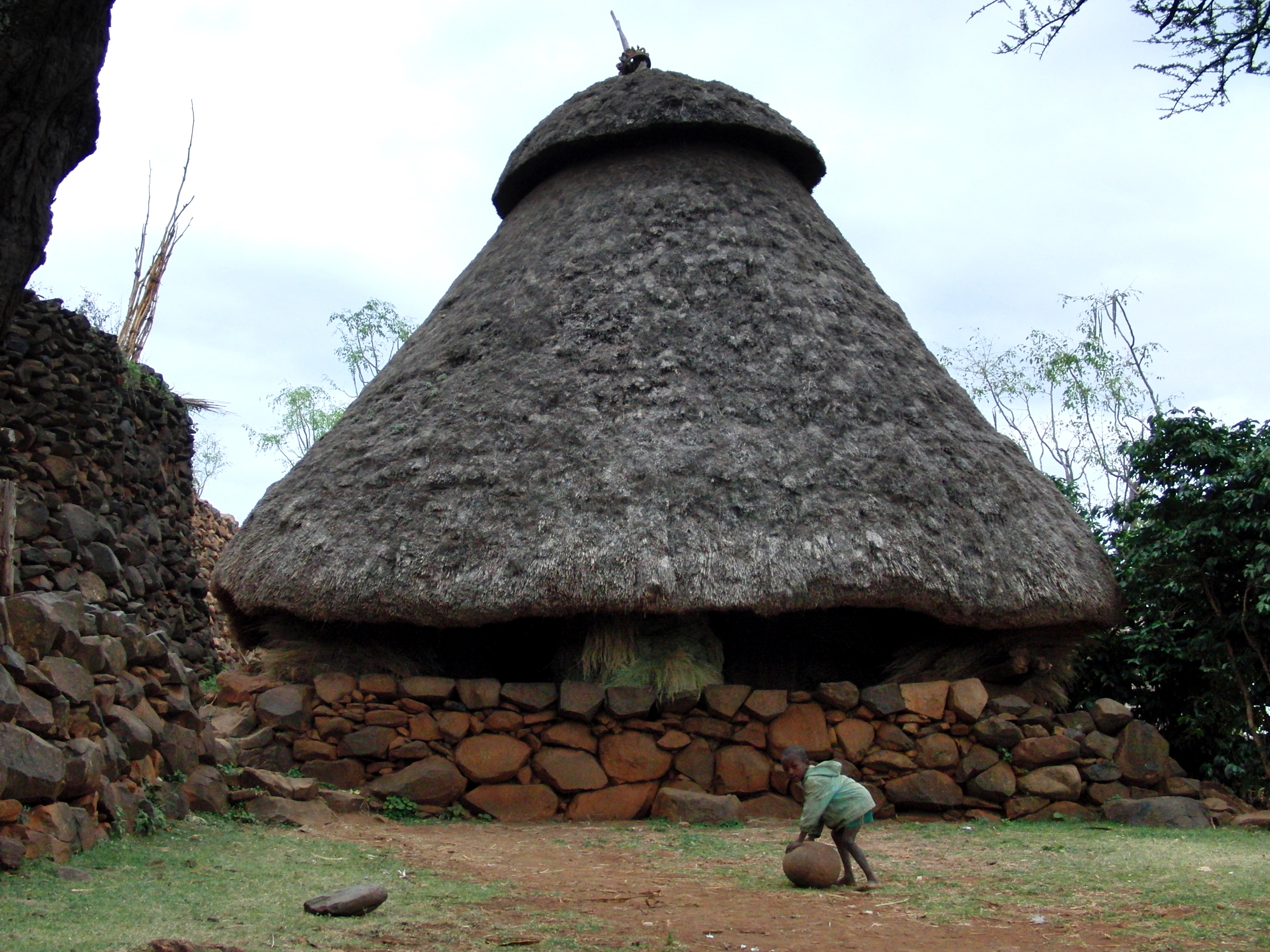 A small boy plays with a ball in front of a stone house in the old village Konso, Southwest Ethiopia.